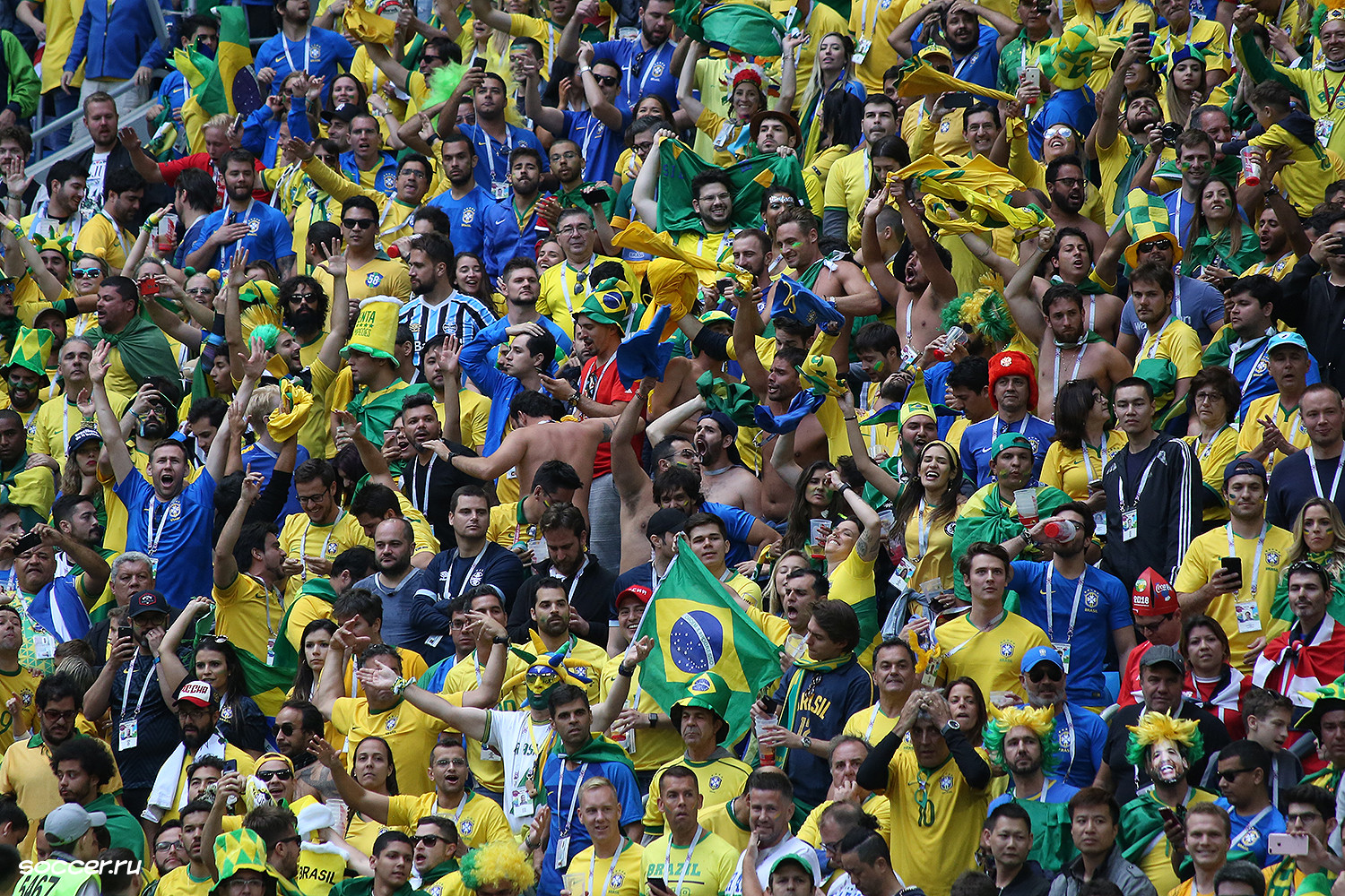 Brazil vs Costa Rica match